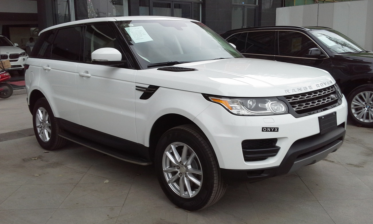 Land Rover Range Rover Sport L494 photographed in Chengdu, Sichuan province, China.